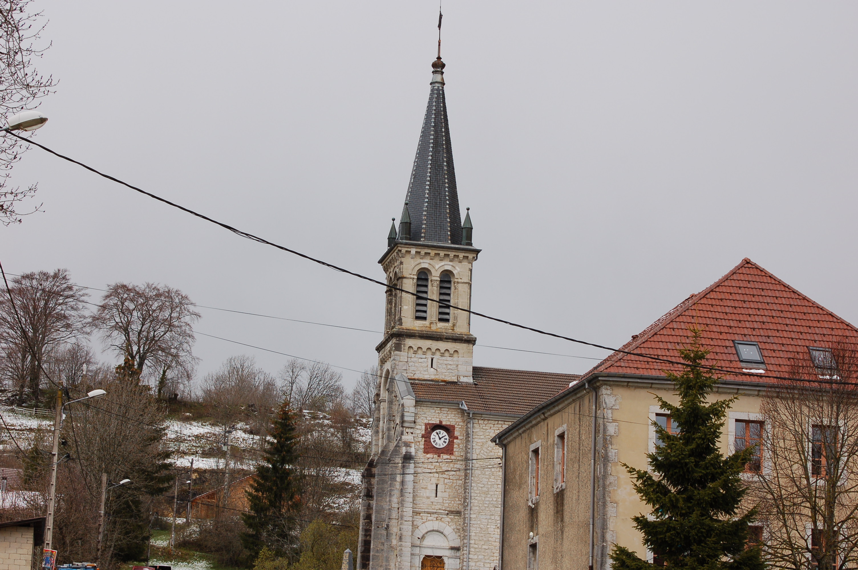 The church of Sainte-Foy to the Allies (25).